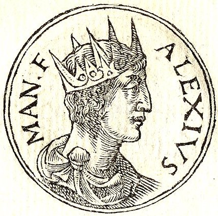 Alexios II Komnenos was the son of Emperor Manuel I Komnenos and Maria, daughter of Raymond, prince of Antioch.